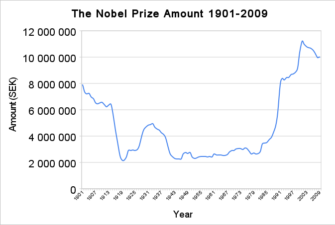 The prize amount[1] adjusted for inflation[2].